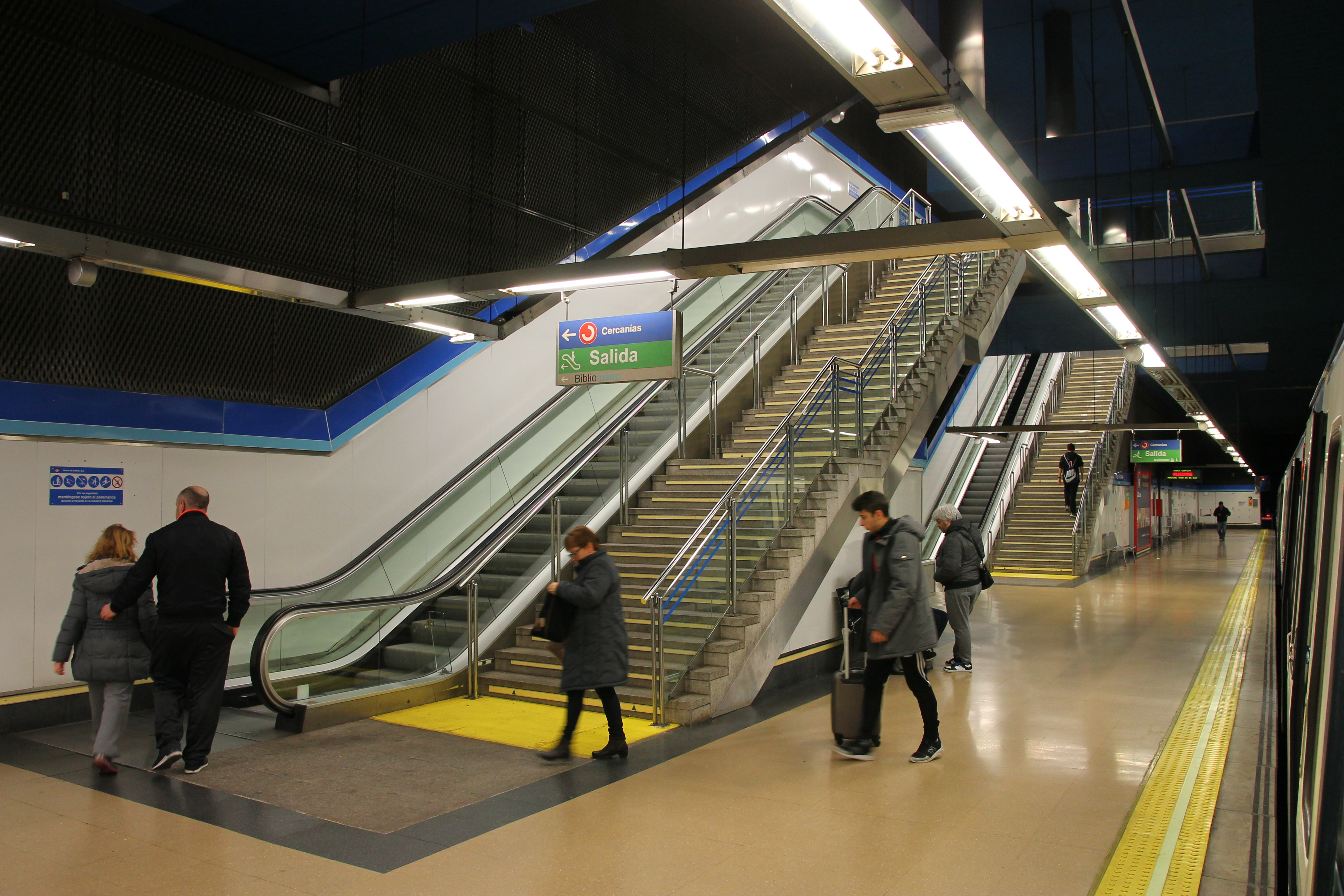 Sierra de Guadalupe station. Madrid Metro.